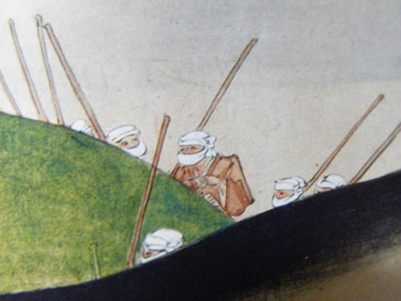 Inujinin, a type of humble people in mediaeval Japan.